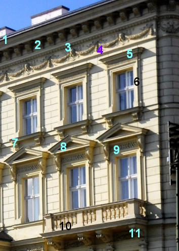 Architectonic elements of a classical (neoclassical) facade: 1-drip; 2-eaves-cornice; 3-egg-and-dart; 4-garland; 6-chambranle; 8-pediment; 10-balcony with balustrade; 11-bracket